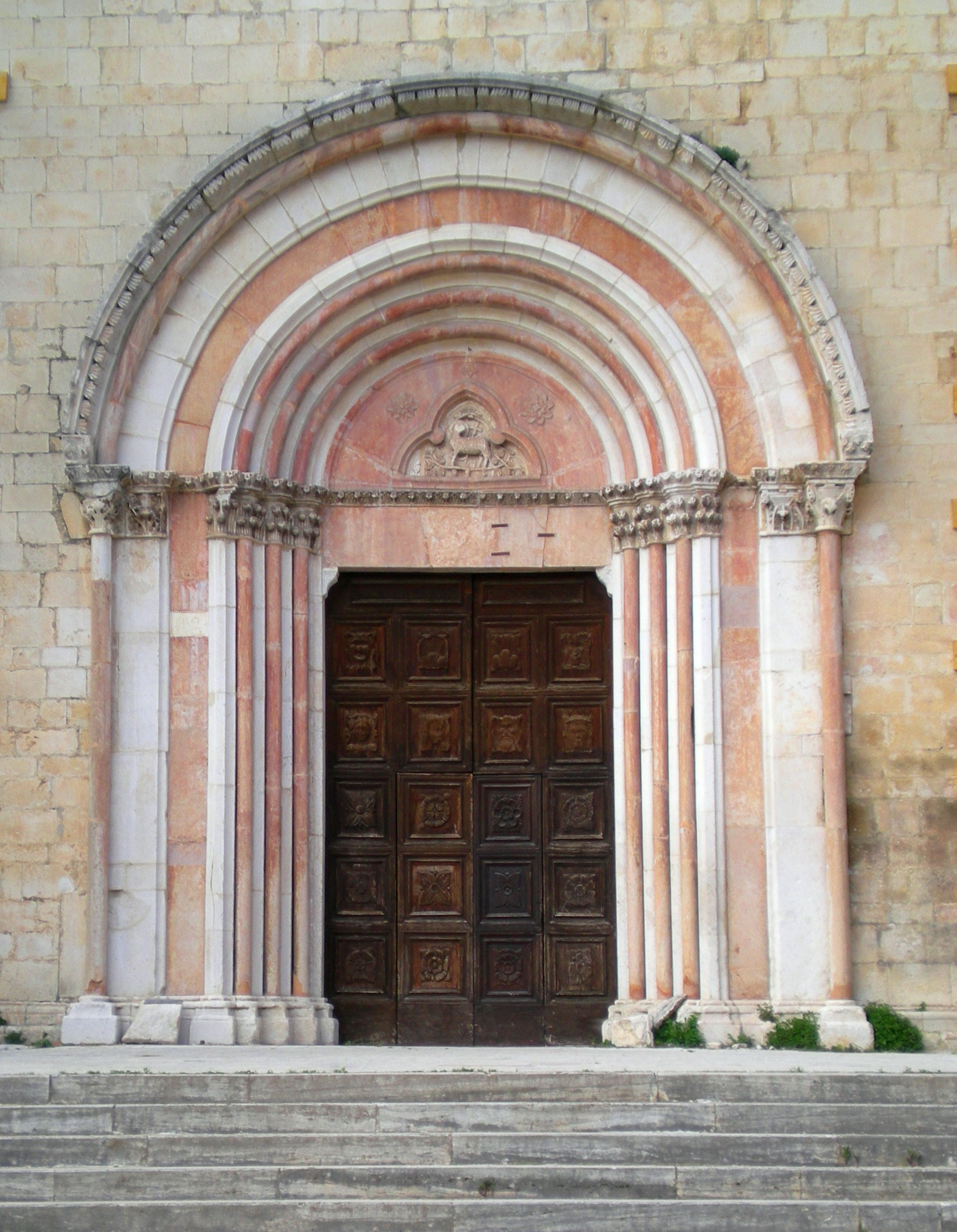 Main gate in San Silvestro Church (L'Aquila)